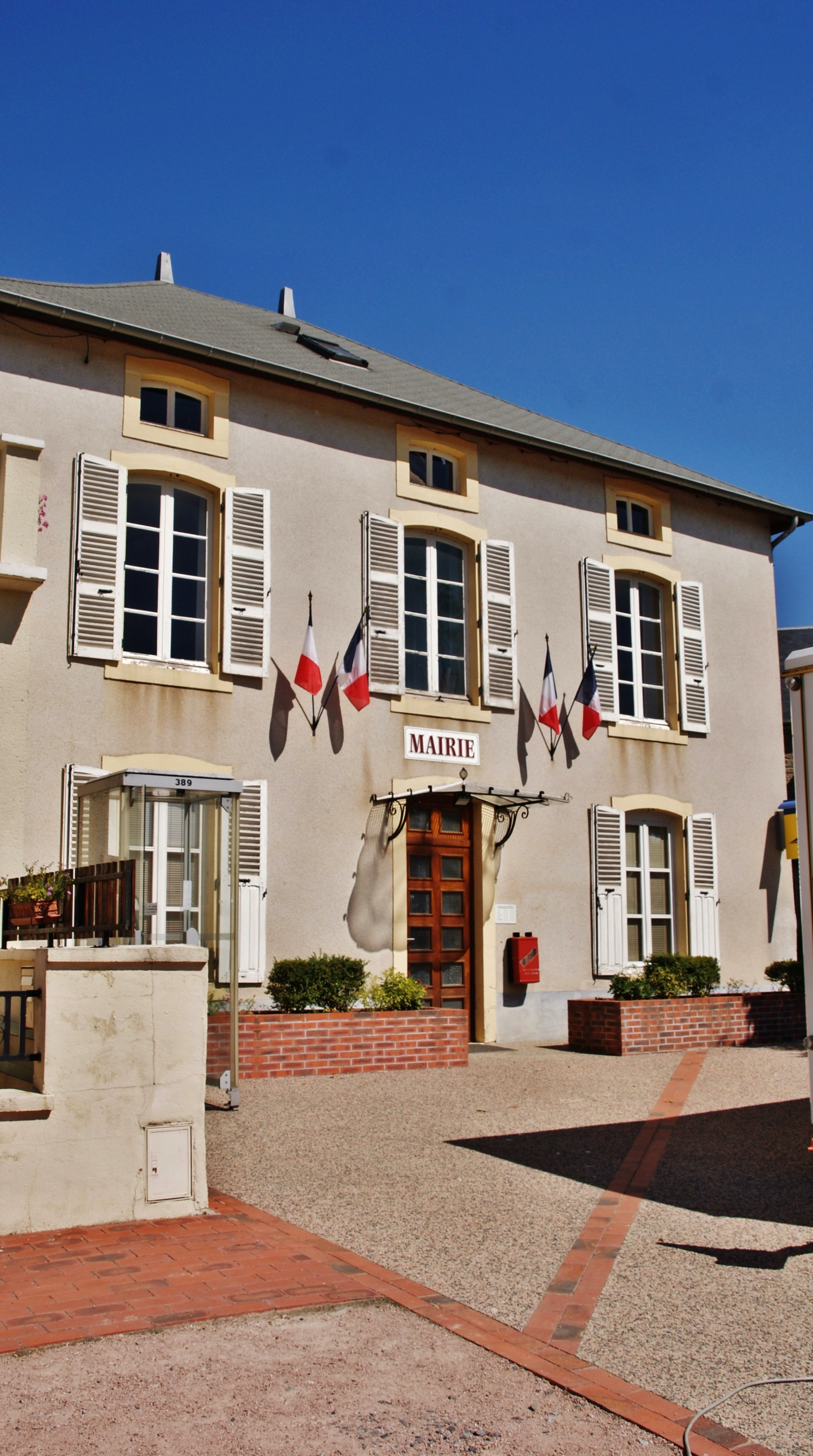 La Mairie